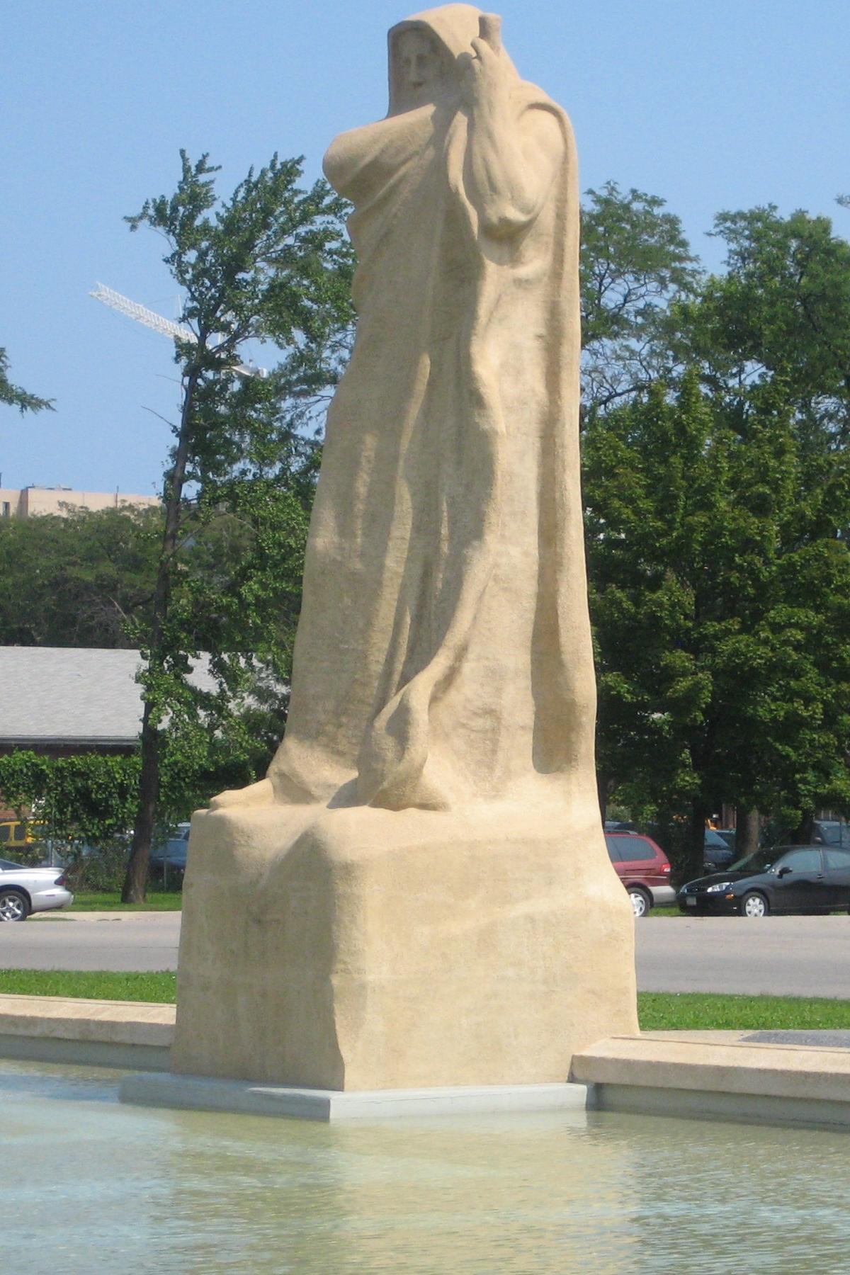 Post-restoration Father Time at Fountain of Time